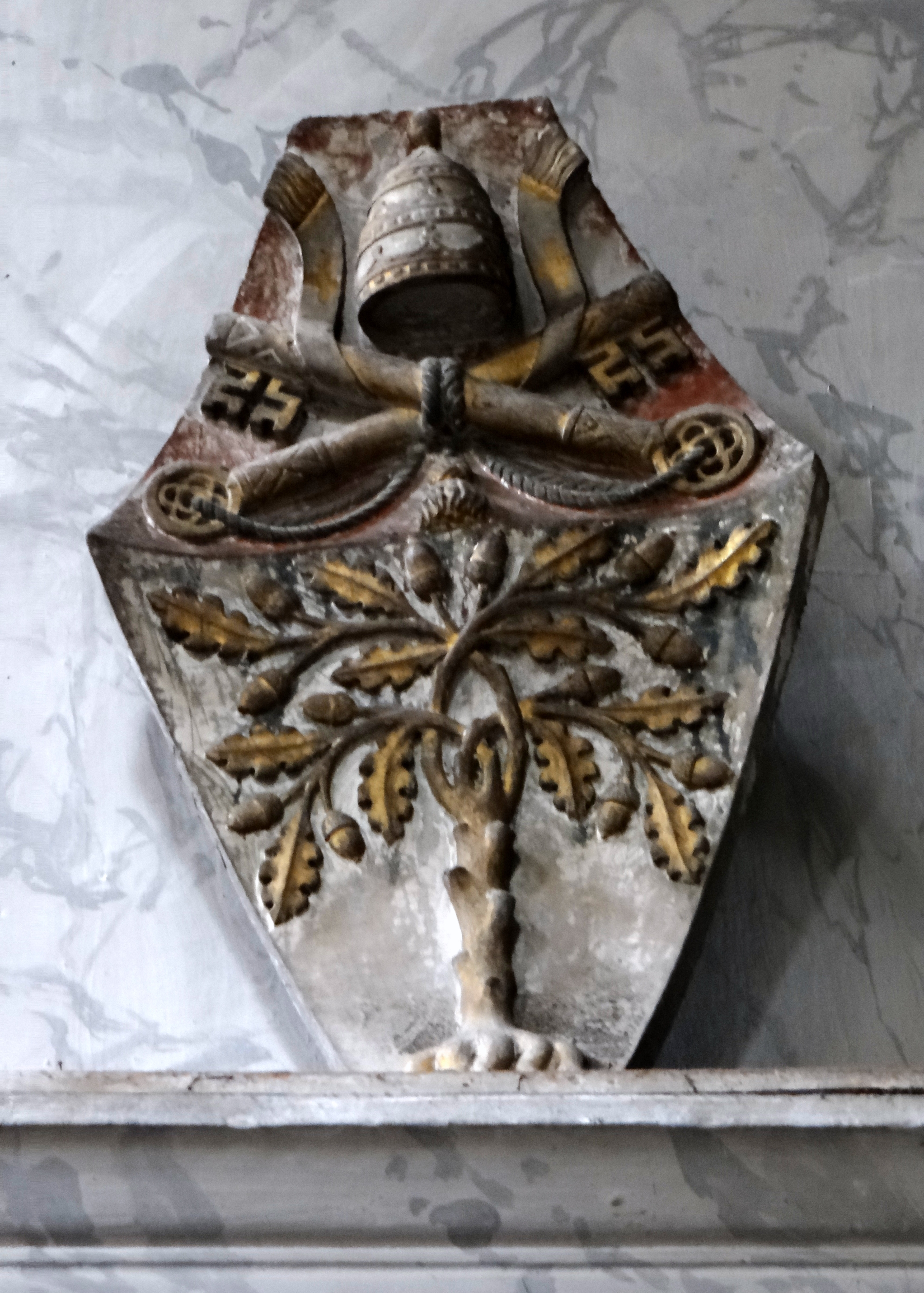 Escutcheon of Pope Sixtus IV in the nave of the Basilica of Santa Maria del Popolo. Painted and gilt stone carving.